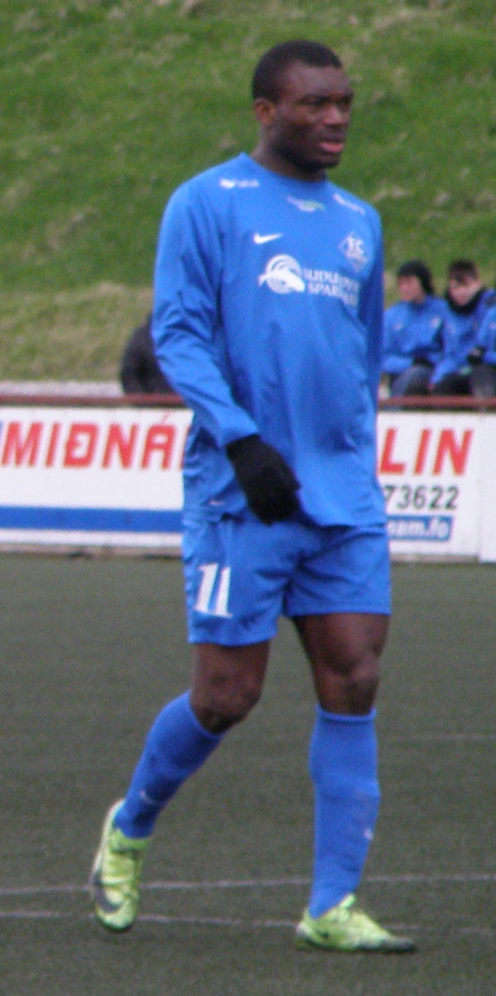 Obi Ikechukwu Charles is a Nigerian football player, a striker. In 2010 he is playing for FC Suðuroy in the Faroe Islands, he is playing on the football club's best team in Vodafonedeildin, which is the best Faroese division. Obi Charles has also been playing in other countries. In 2009 he was playing for Flamurtari in Albania. In 2008 he was playing for Doxa from Cyprus. In 2007/08 he was playing for Boavista from Portugal. Before that he was playing football in Finland for Pallokerho-35. Føroyskt: Obi Ikechukwu Charles er ein fótbóltsleikari frá Nigeria. Í 2010 spælir hann á Vodafone liðnum hjá FC Suðuroy sum áleypari. Hann skoraði trý mál tíðliga í sesongini, men seinastu tíðina hevur ikki gingið so gott hjá FC Suðuroy og liðið liggur nú (juni 2010) niðast í Vodafonedeildini. Obi Charles hevur eisini spælt fótbólt í øðrum londum enn Føroyum og Nigeria. Í 2009 spældi hann í Albania fyri Flamurtari, í 2008 spældi hann fyri Doxa frá Kypros. Í 2007/08 spældi hann fyri Boavista úr Portugal. Áðrenn tað spældi hann í Finlandi fyri PK-35. Obi Charles hevur til nú (juni 2010) skorað 3 mál fyri FC Suðuroy. Liðið flutti upp í bestu deildina í 2009, men nú liggja teir niðast í Vodafonedeildini.